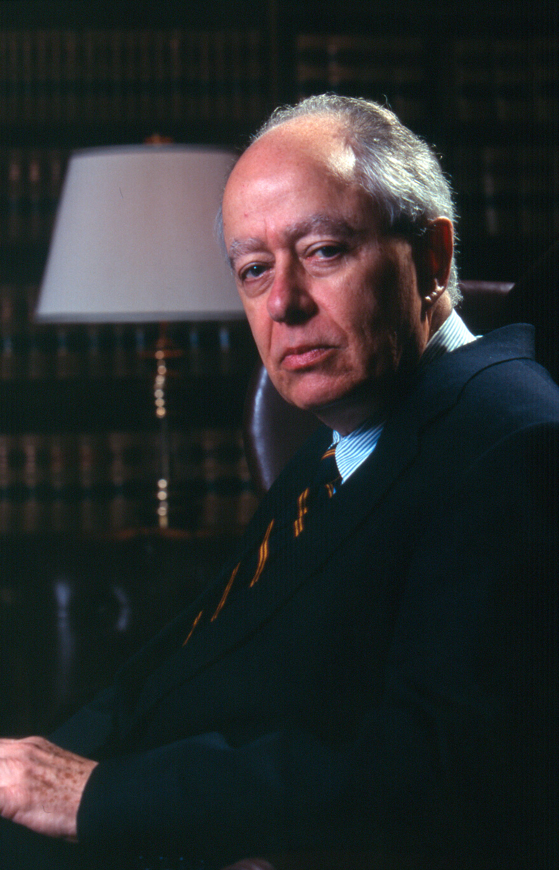 Photoportrait of G. Robert Blakey